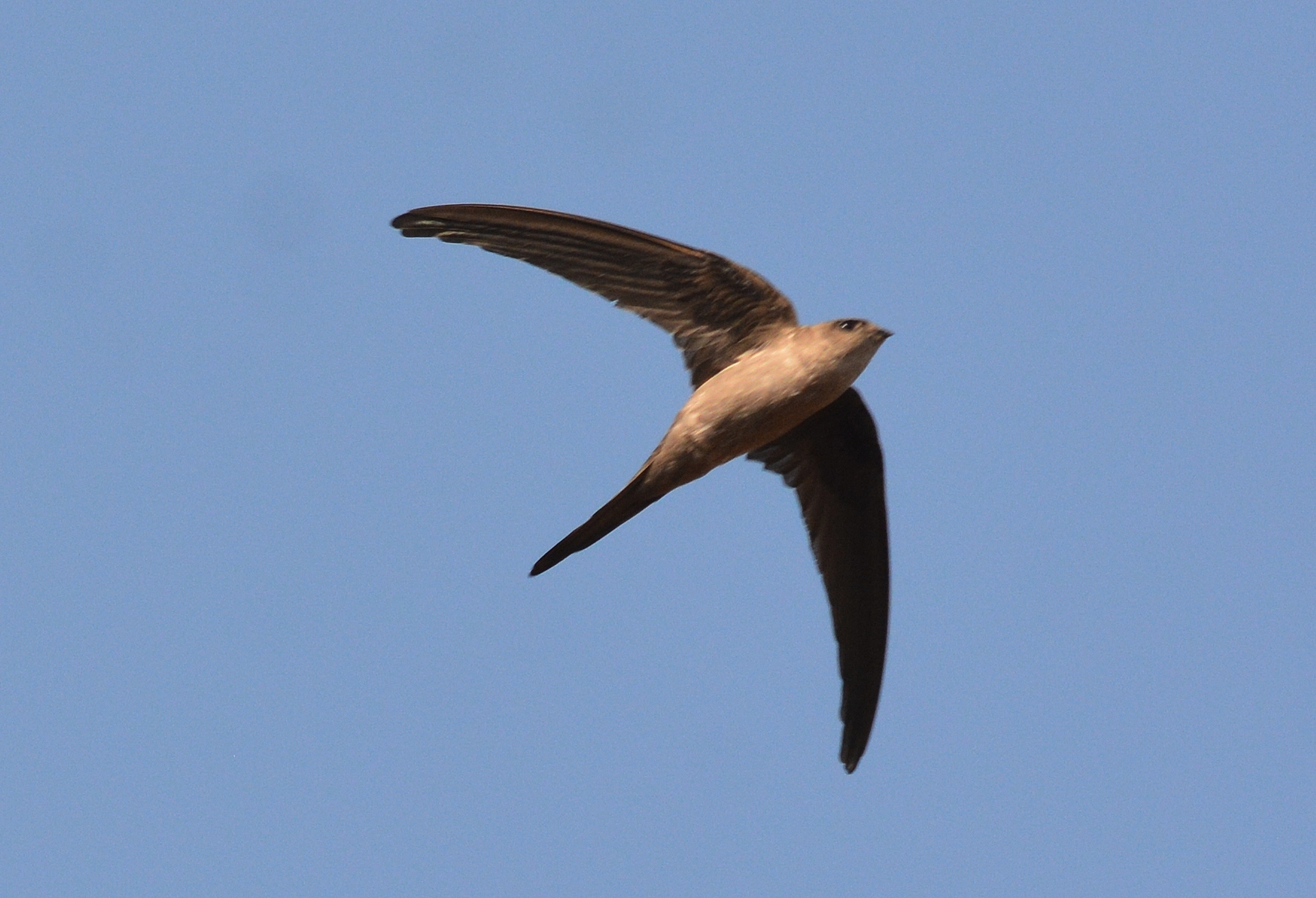 Asian Palm Swift Cypsiurus balasiensis. Photo taken at Mumbai, Maharashtra, India by Dr. Raju Kasambe. Dt. 20 December 2014.